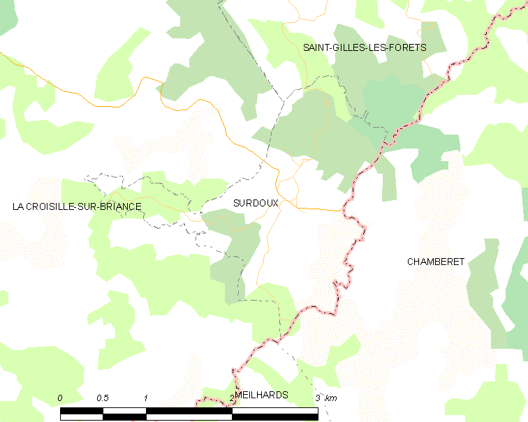 Map of French municipality Surdoux